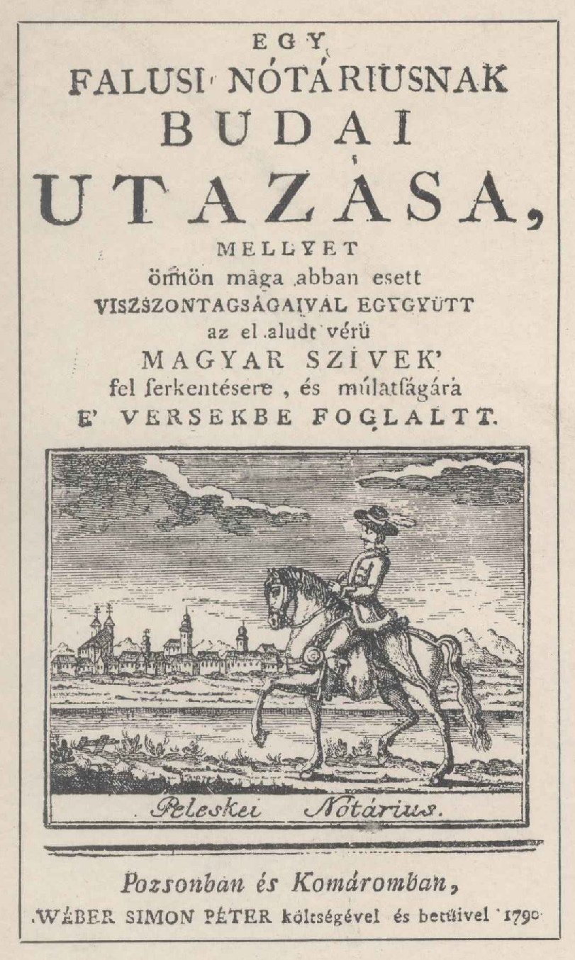 József Gvadányi